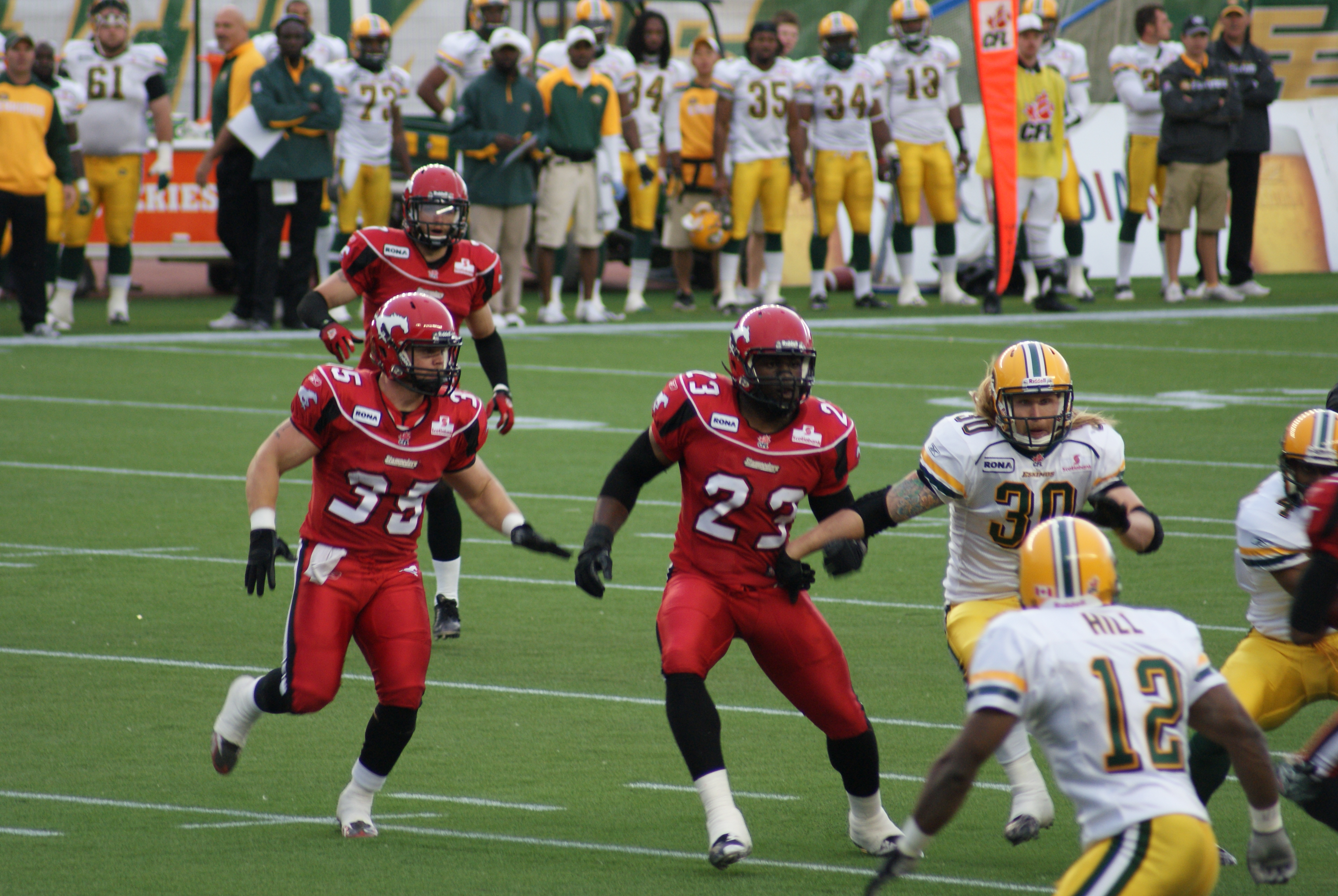 Tim St.Pierre covering punt.